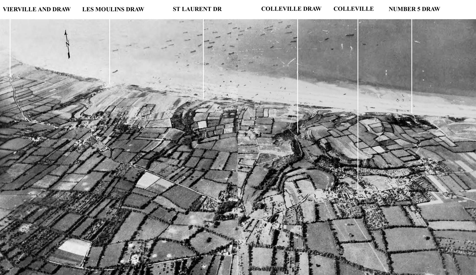 Aerial view of Omaha Beach showing the draws, left to right; Vierville (D-1), Les Moulins (D-3), St. Laurent (E-1), Colleville (E-3) and "Number 5 Draw" (F-1). Only E-1, F-1 and, late in the day, D-1 were opened enough to allow the passage of vehicles inland on D-Day.